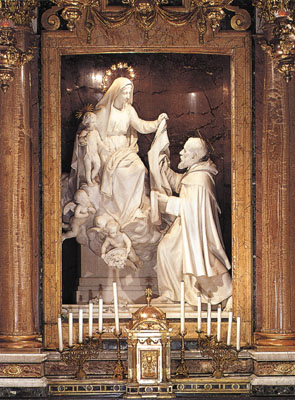 The Virgin Mary giving the Scapular to Saint Simon Stock - by Alfonso Balzico (1825-1901) - Church of Santa Maria della Vittoria, Rome, Italy.